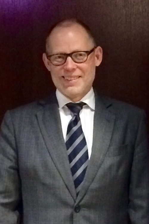 Brook Barrington